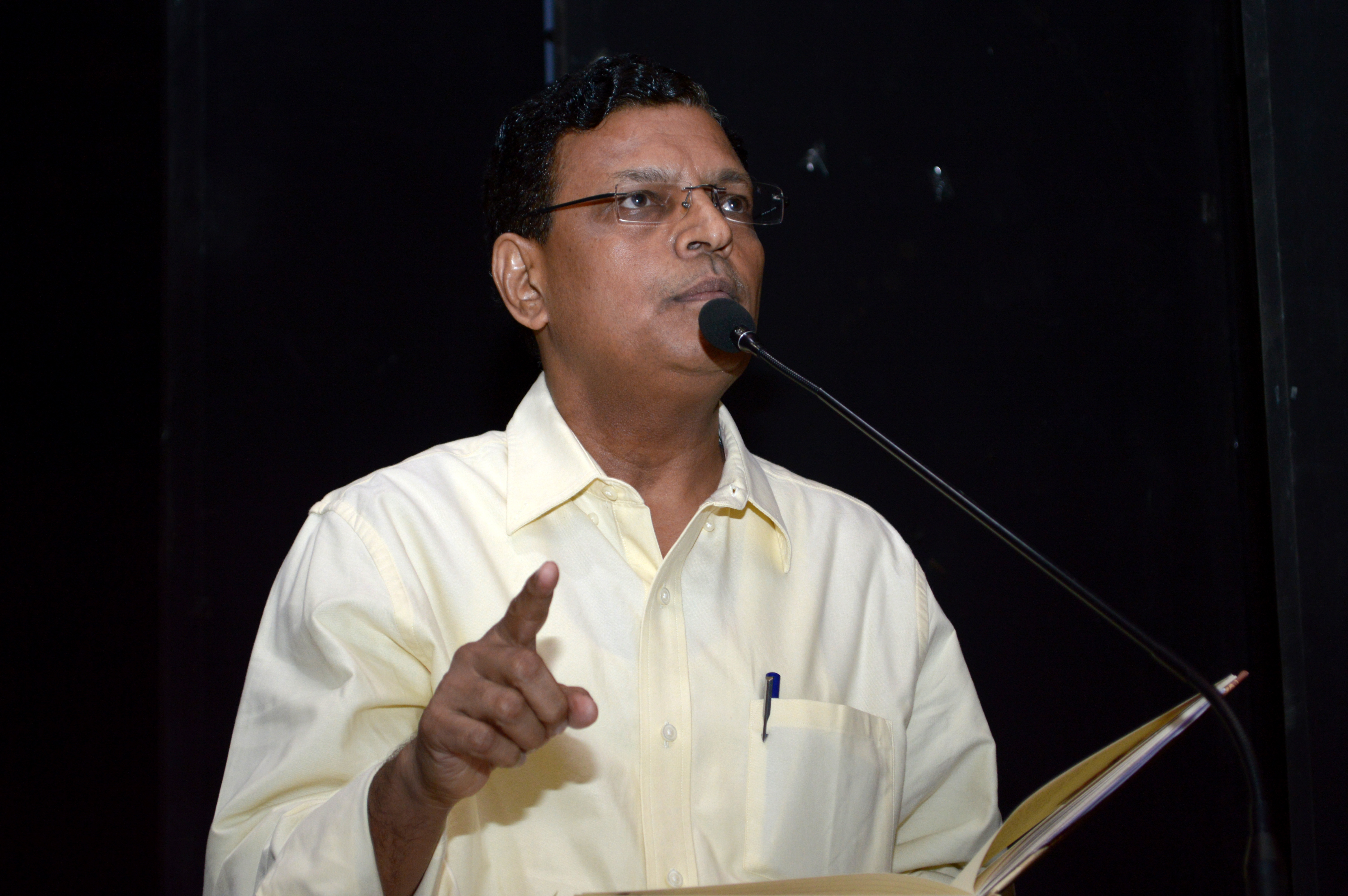 Harsh Brahmbhatt at Gujarati Sahitya Parishad on 19 June 2016